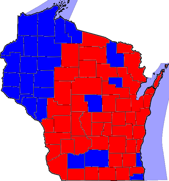 1980 Wisconsin Senate election results by county.